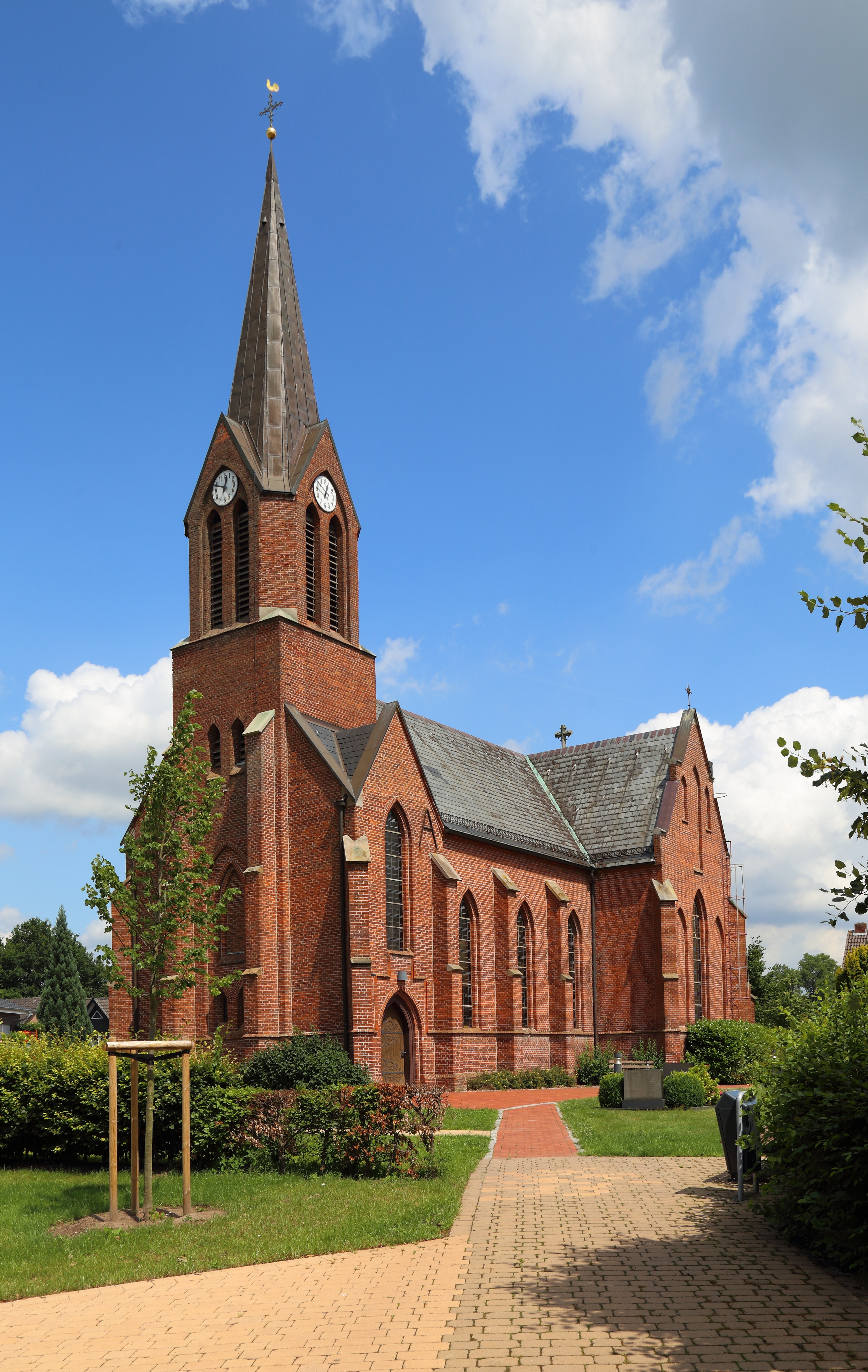 Reformed Church (Evangelisch-reformierte Kirche) in Baccum, a city district of Lingen (Ems), Landkreis Emsland, Lower Saxony, Germany.